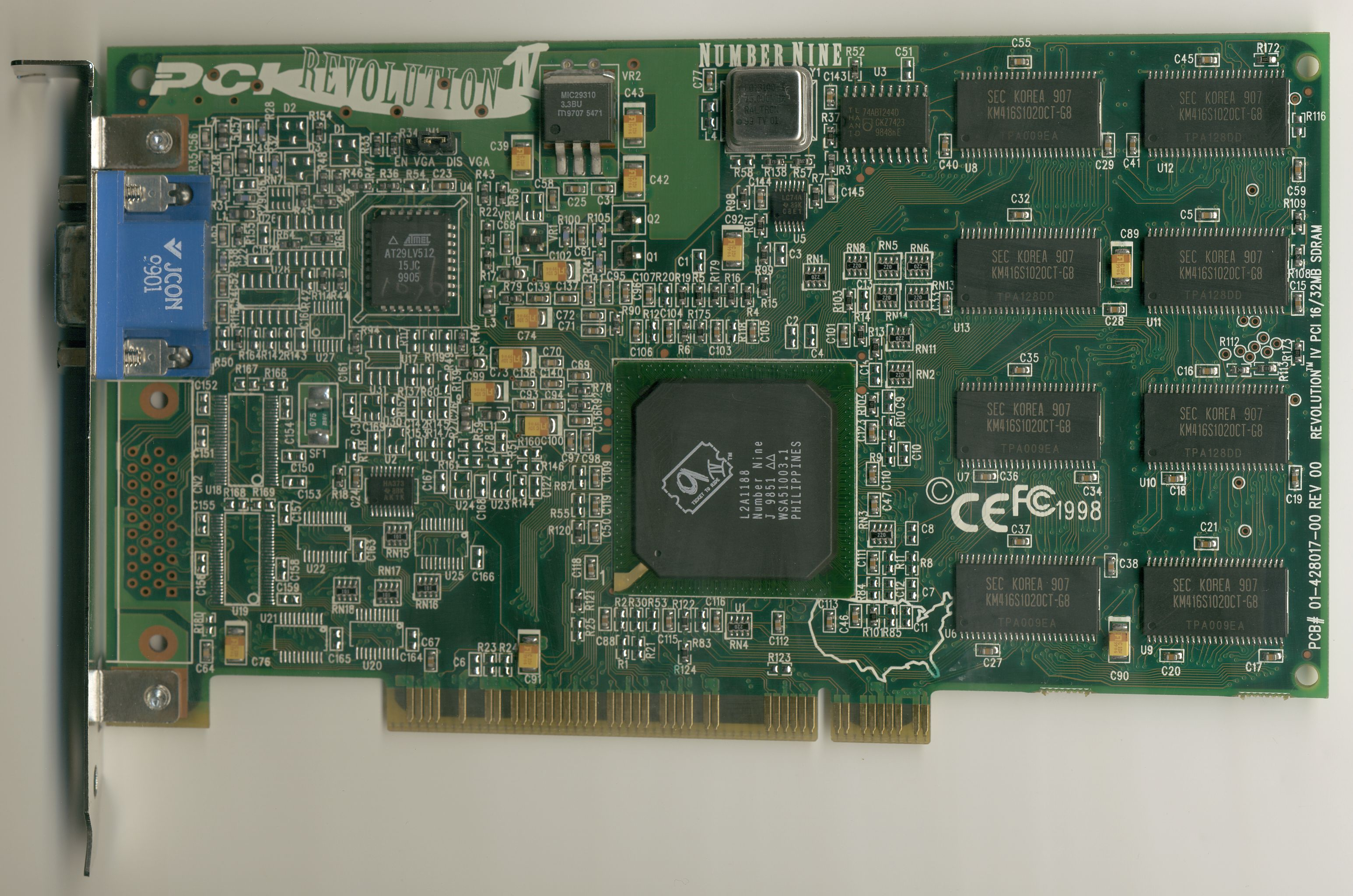 Description : NumberNine RevolutionIV (Ticket_to_Ride_4) PCI 32MB SDRAM Photographer/Painter : Mac3216